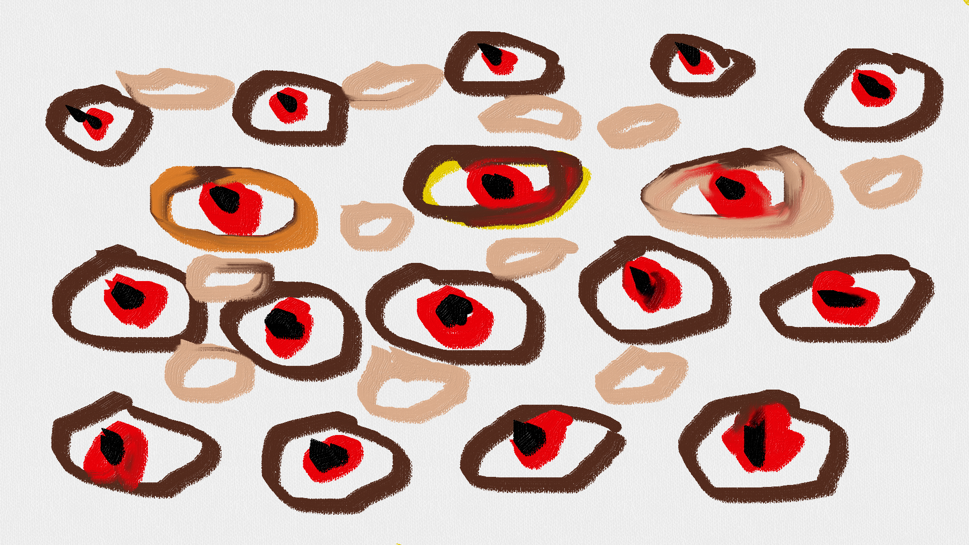 art brut made by a paranoid schizophren